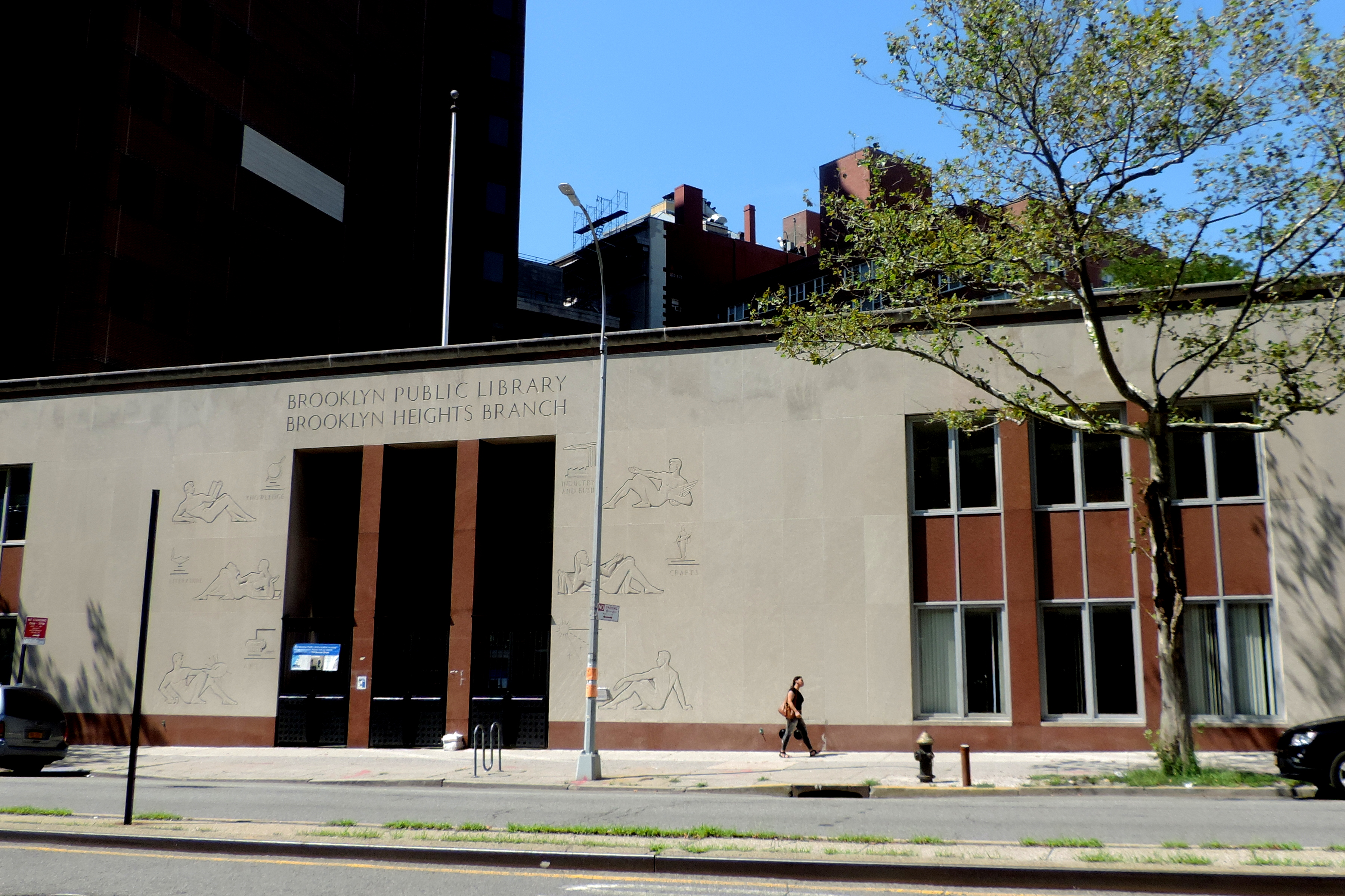 Looking southwest across Fulton Street at library on a sunny late morning.